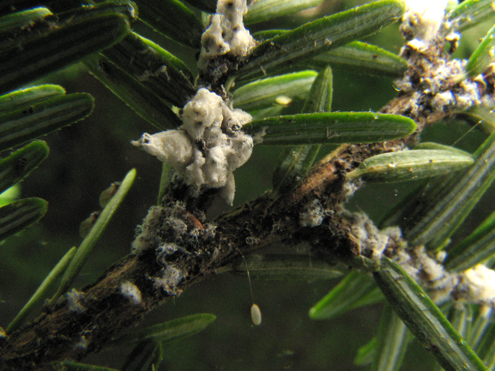 Hemlock wooly adelgid from Tennessee - Adelges tsugae, with a lacewing (Chrysopidae) egg; they feed on aphids and related soft bodied insects like these. Bays Mountain Park, Sullivan County, Tennessee, USA.